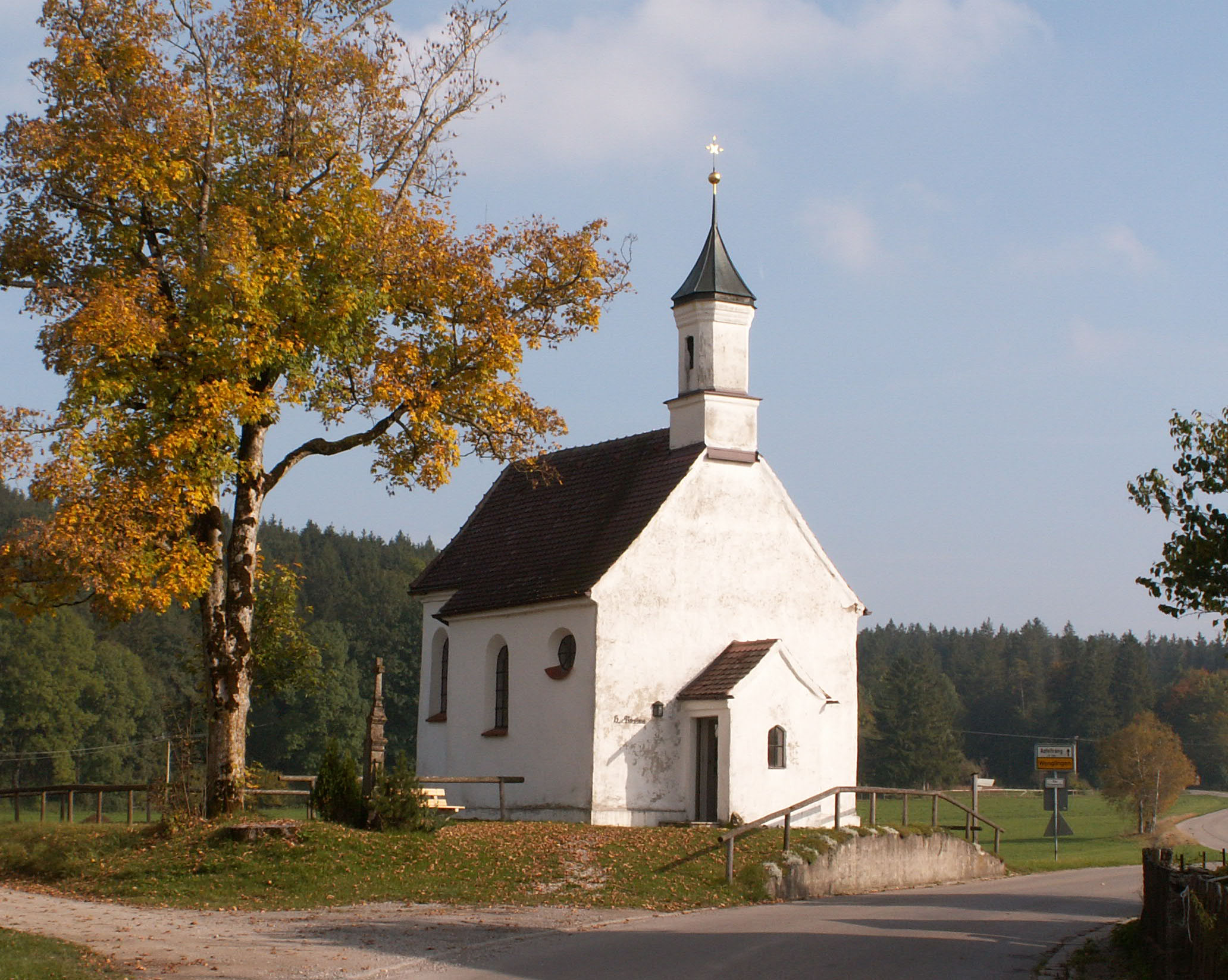 Kapelle Wenglingen, Aitrang